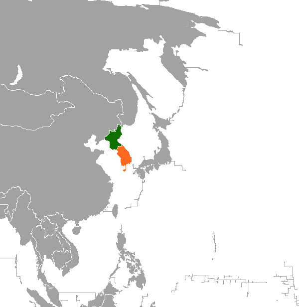 Own work, based on Wikipedia blank map.